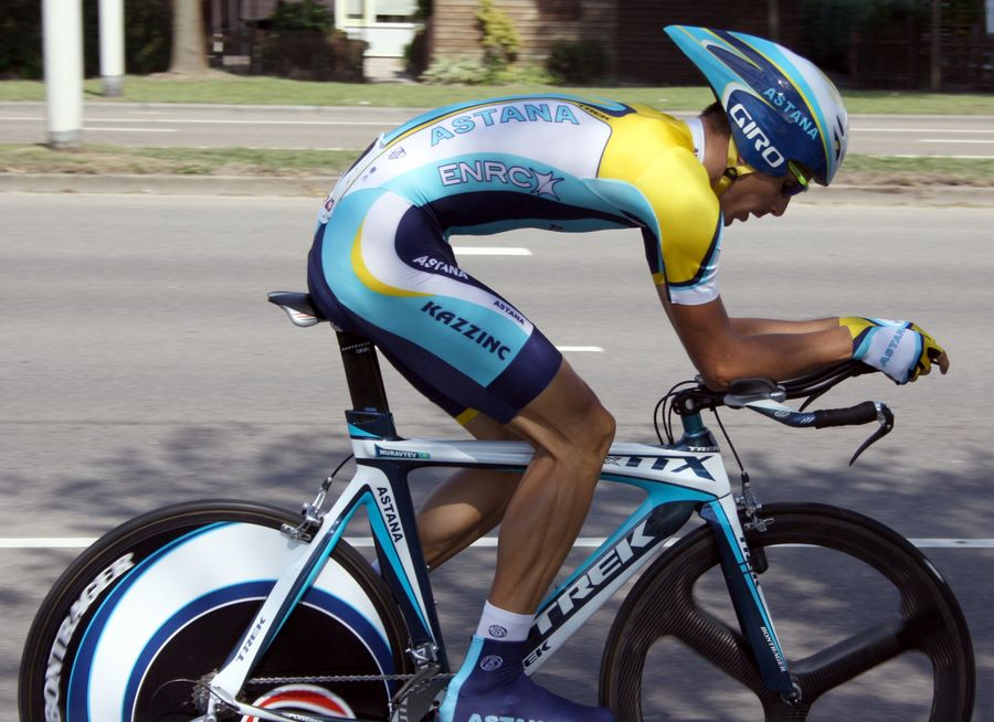 Dimitry Muravyev at the 2009 Eneco Tour prologue